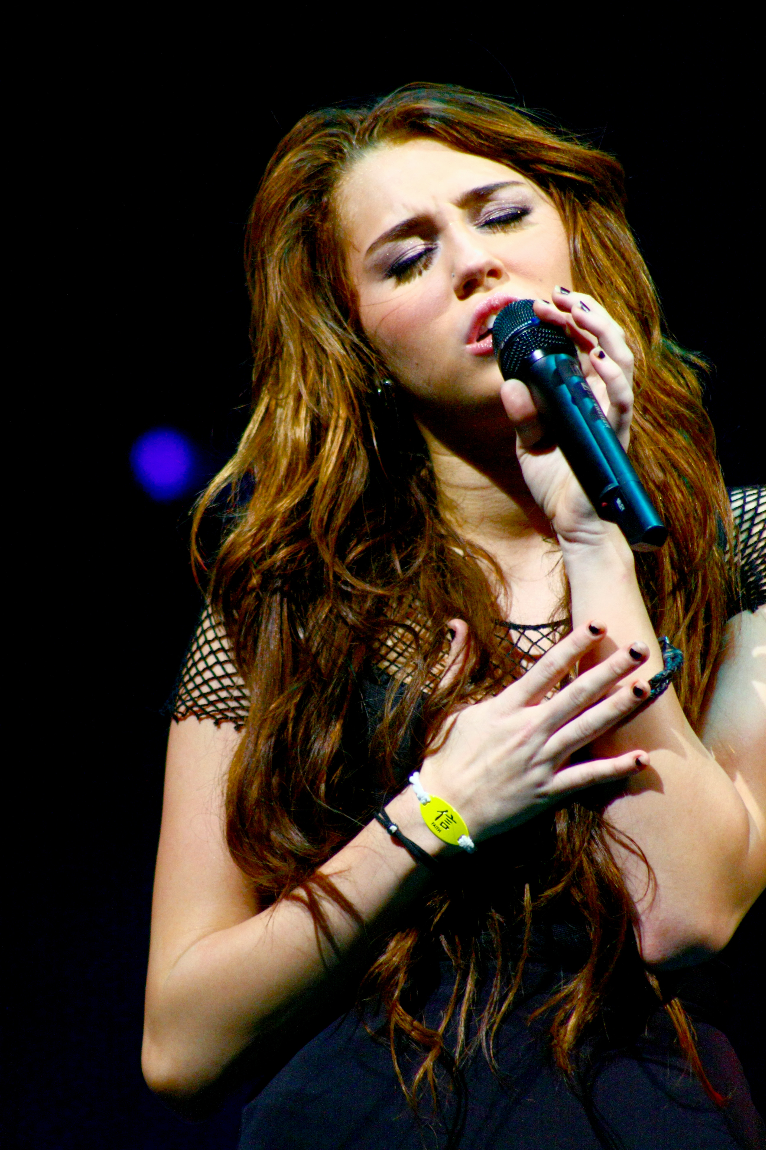 Miley Cyrus, a brunette teenager, sings with a microphone close to her in a concert that is part of her Wonder World Tour in Auburn Hills.